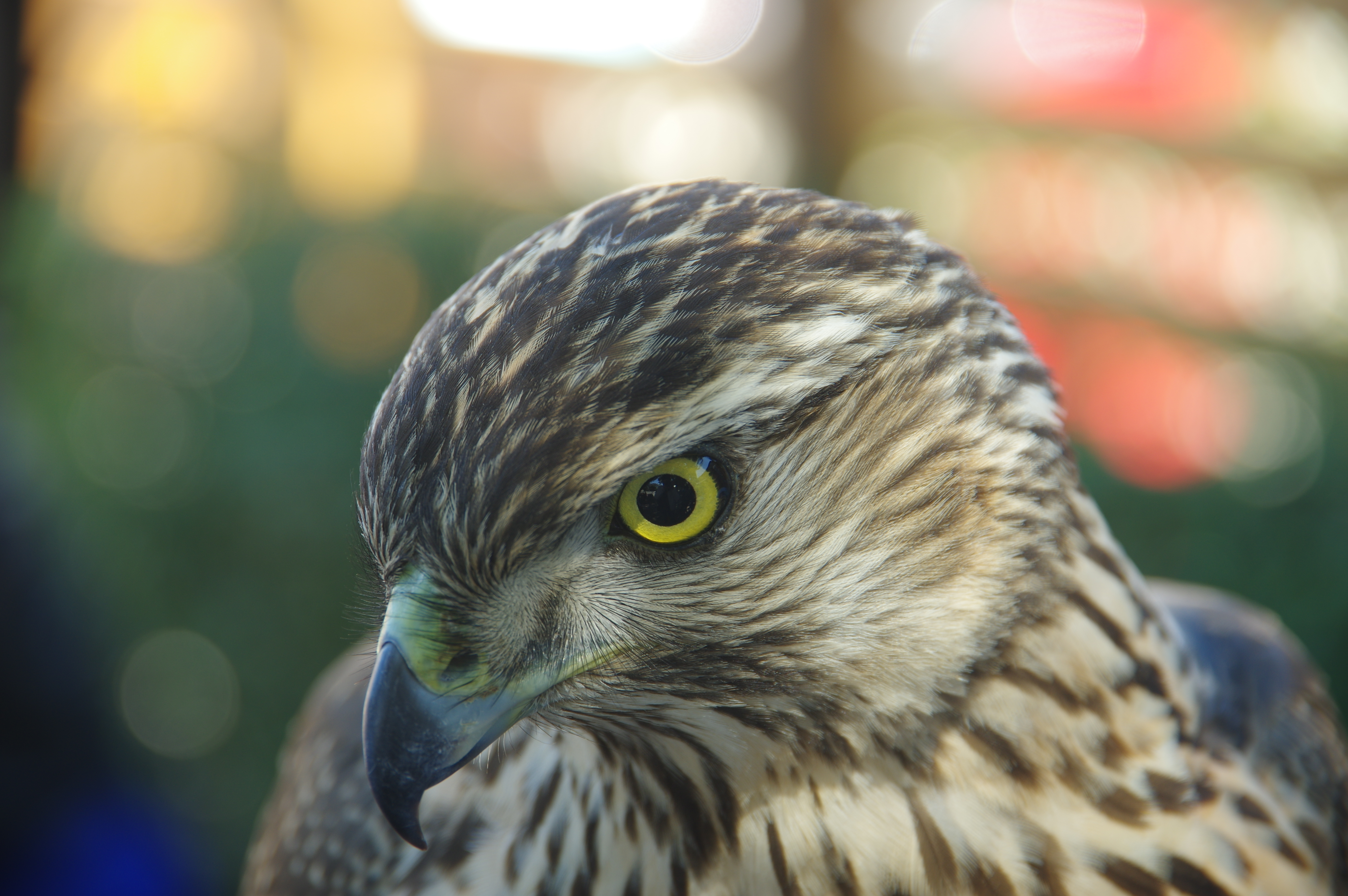 GOSHAWK